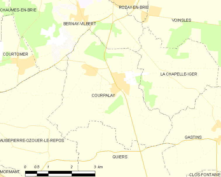 Map of French municipality Courpalay